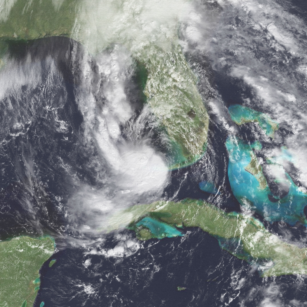 Tropical Storm Marco over the Florida Keys on October 10, 1990